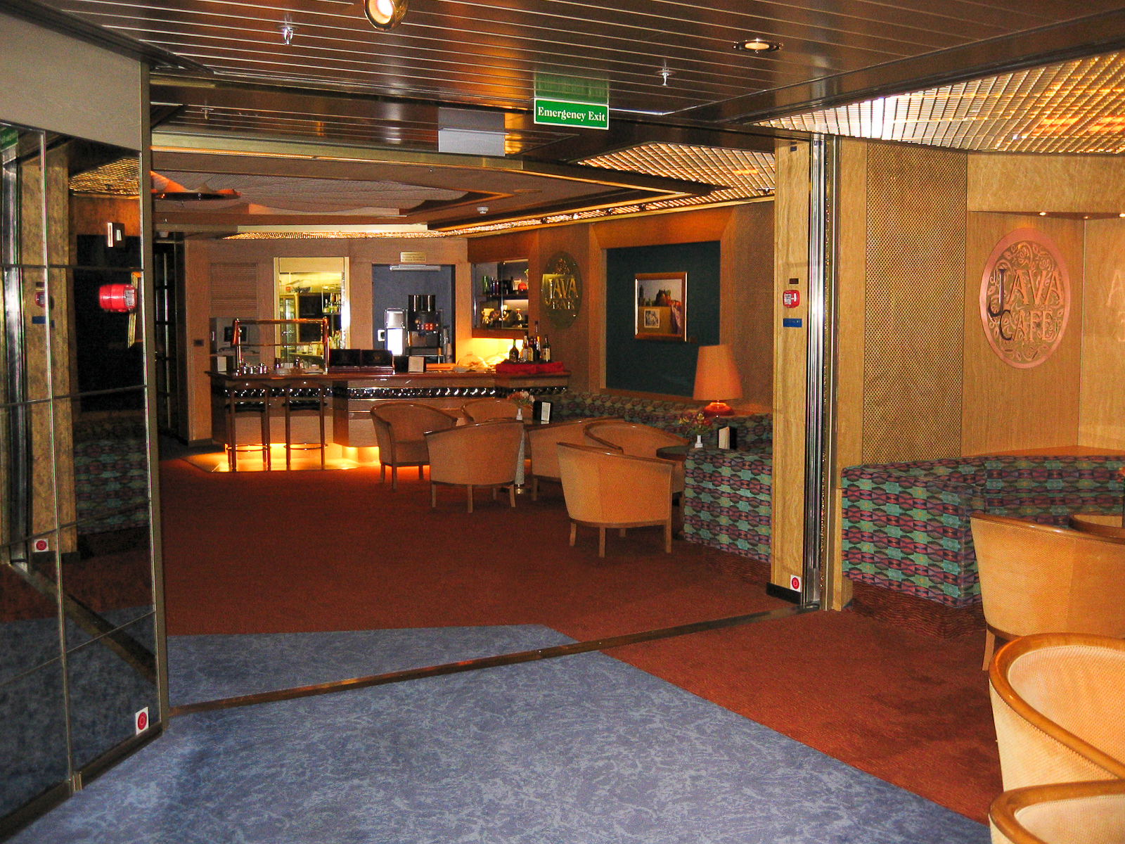 "Java Bar" in MS Volendam